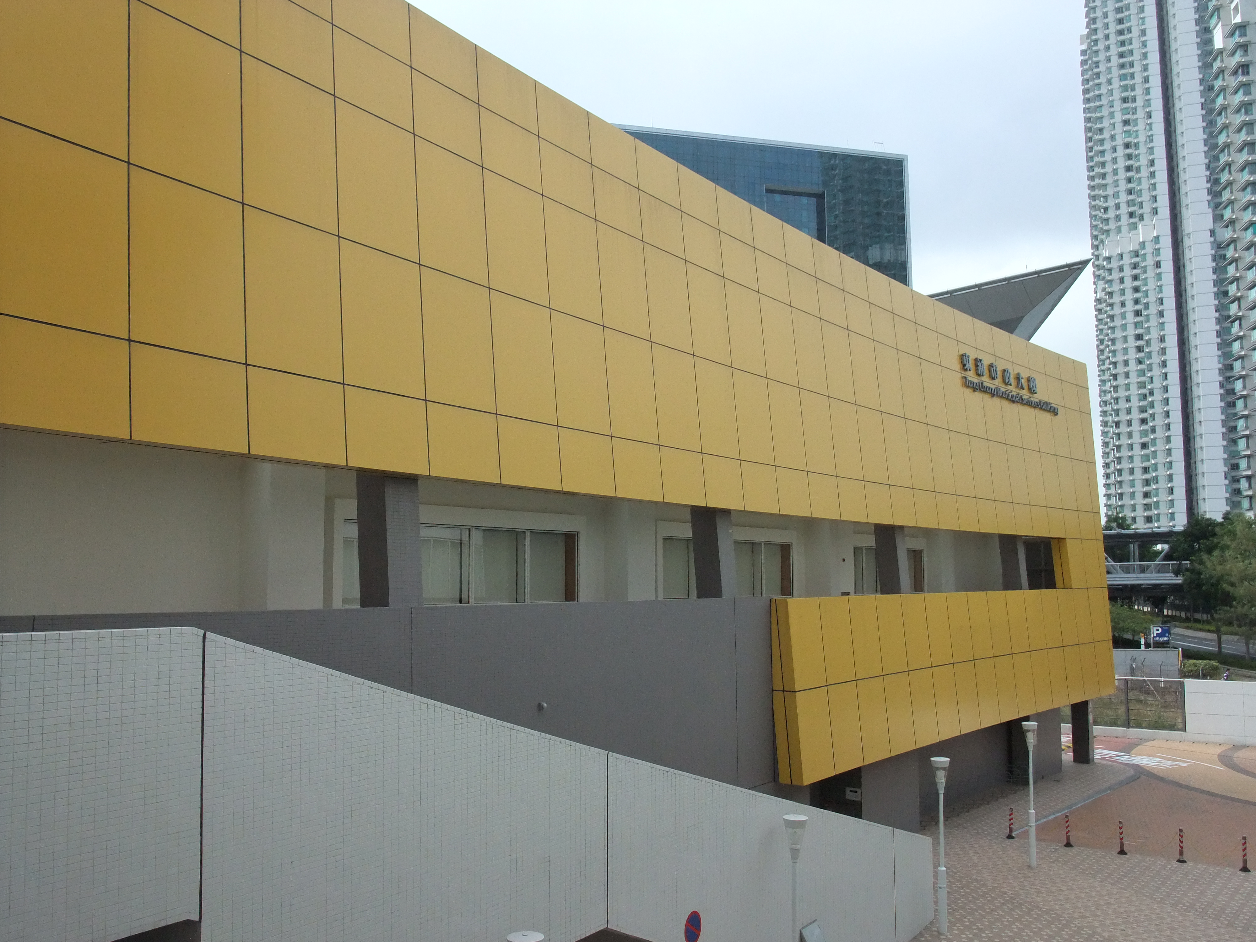 Tung Chung Municipal Services Building, Hong Kong.